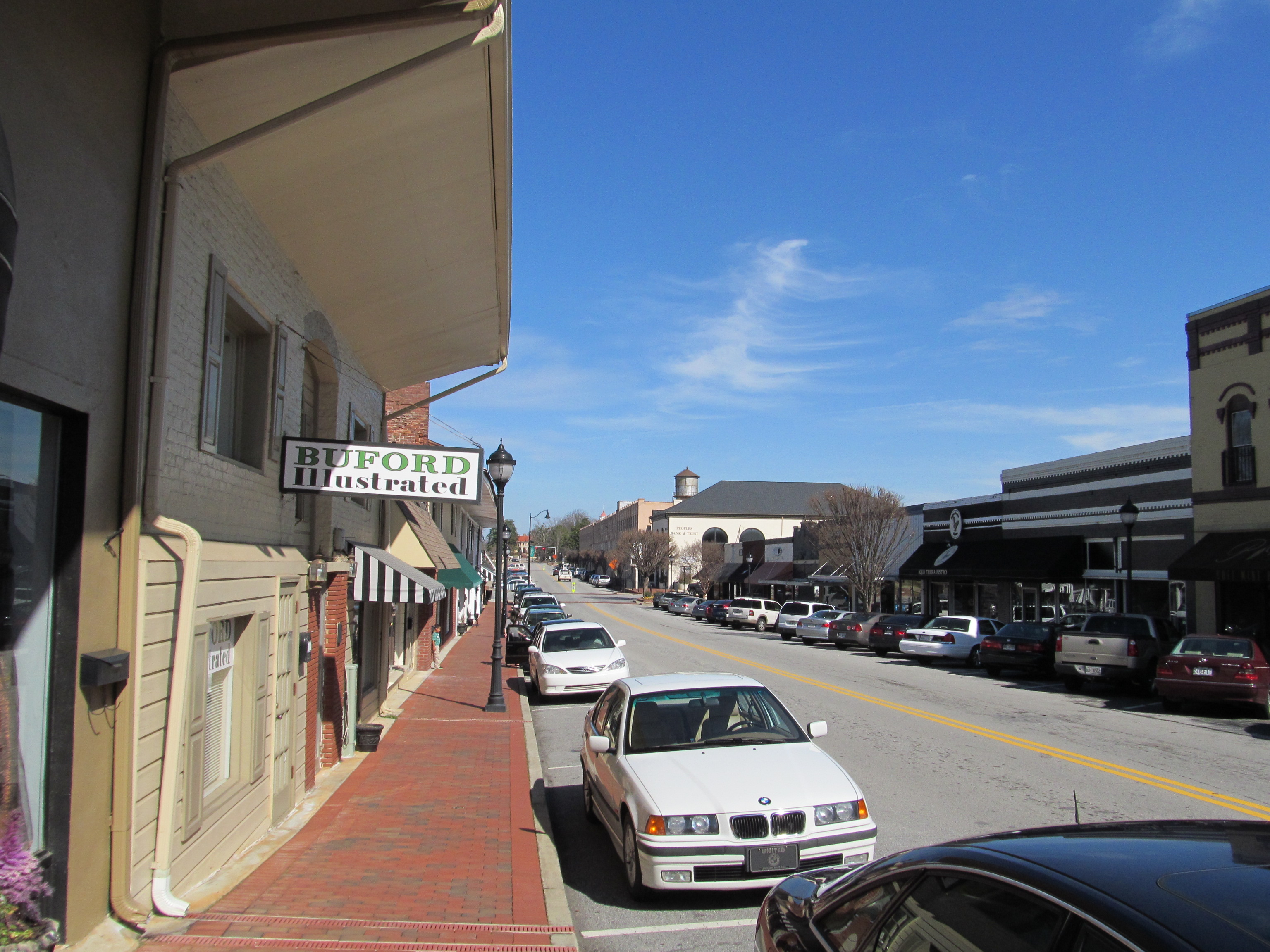 Main Street, Buford Georgia